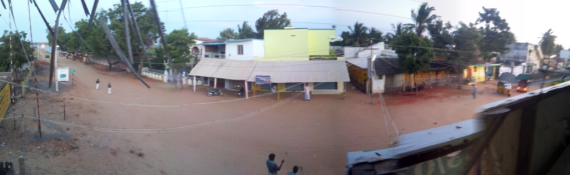 Pudumadam bus stand 180